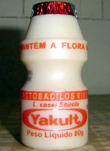 Description: Yakult beverage picture, taken by user Carioca License: GFDL